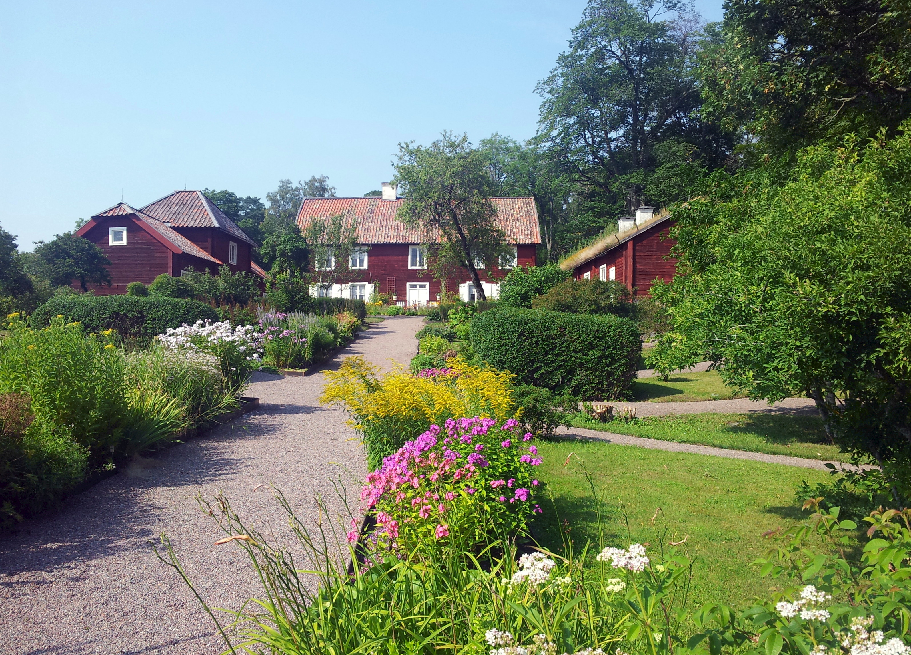 Linnaeus' Hammarby in August 2014. View from the botanical garden towards the main building.